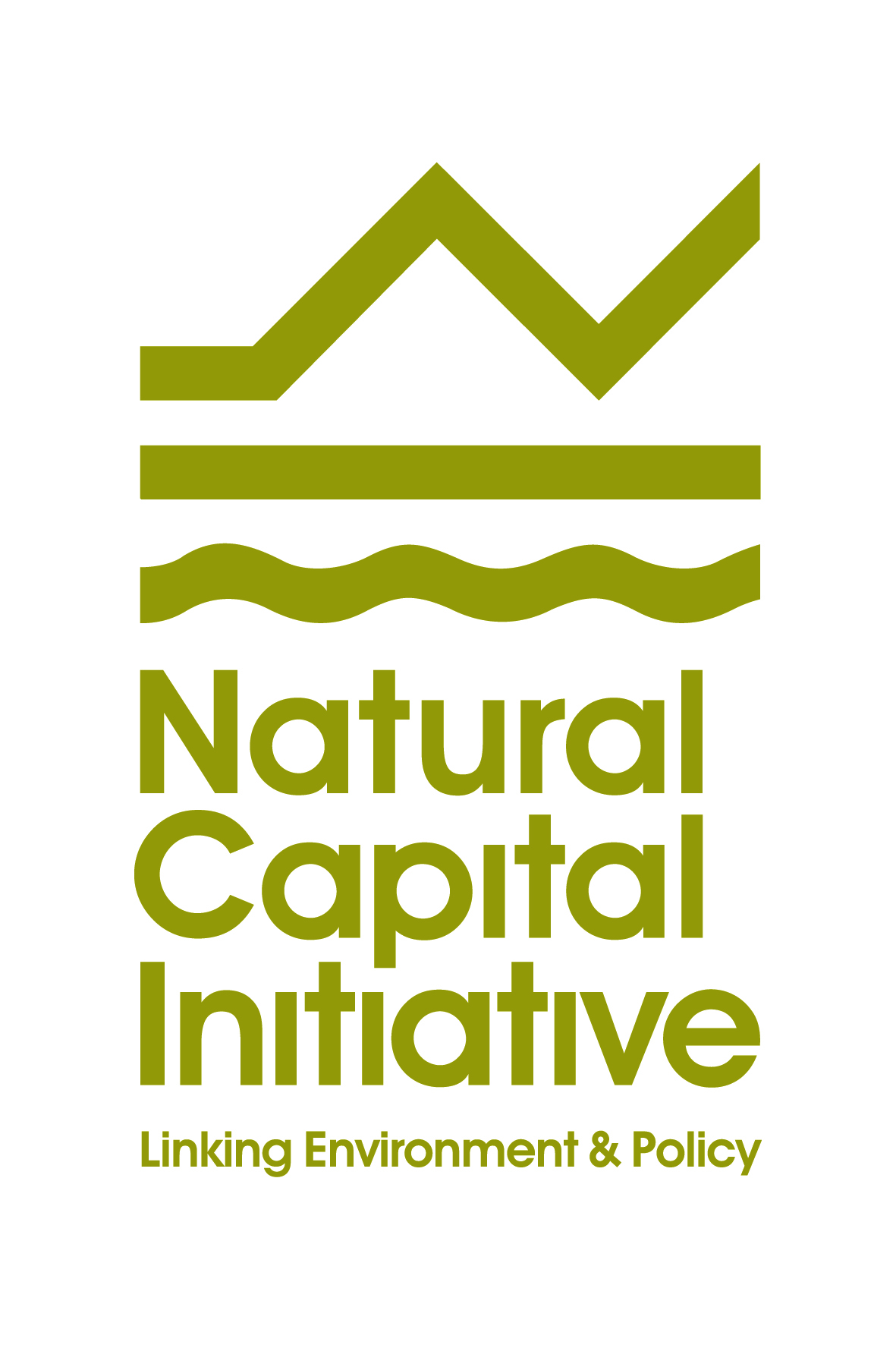 logo